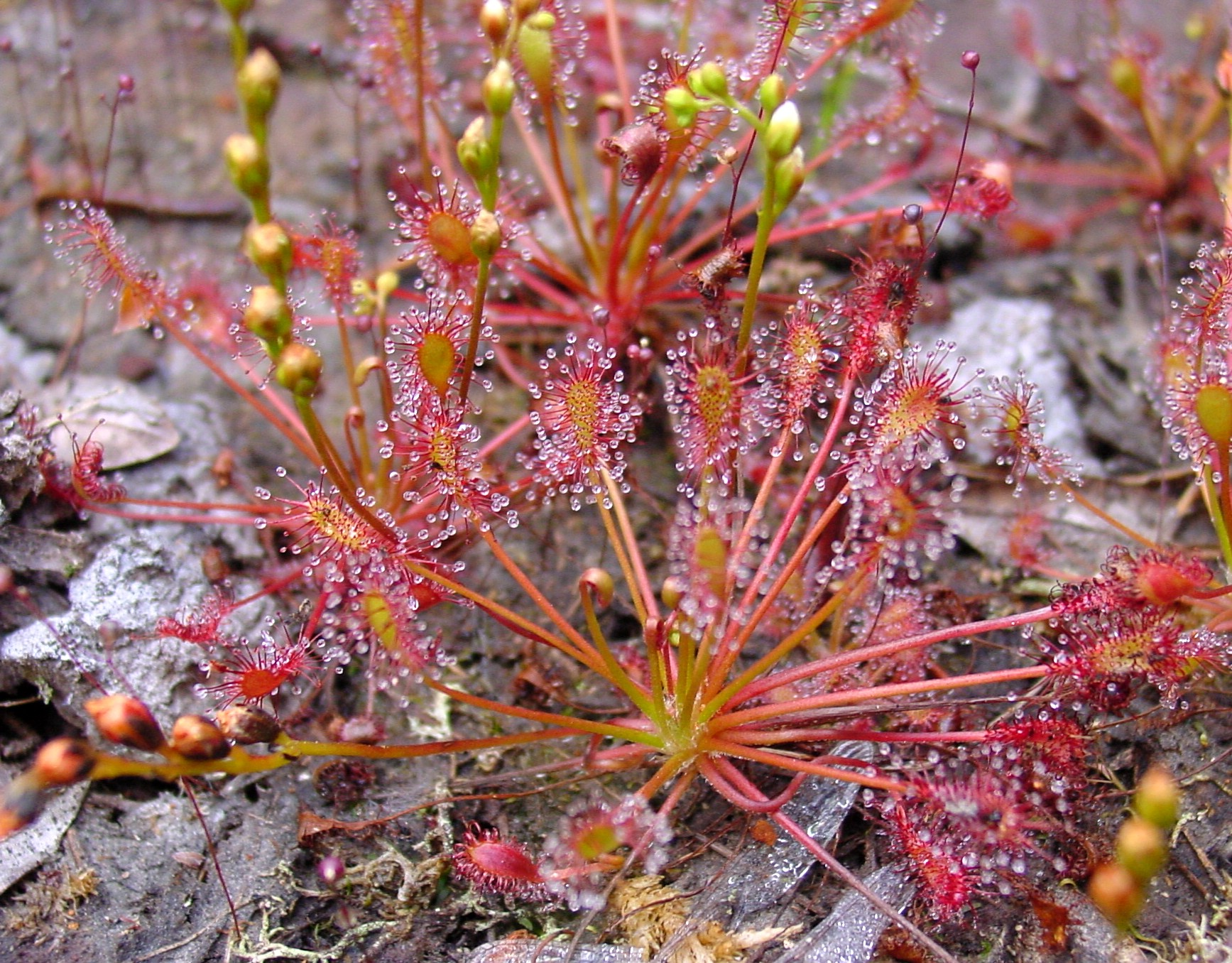 Description:Drosera intermedia Photo taken by: Noah Elhardt